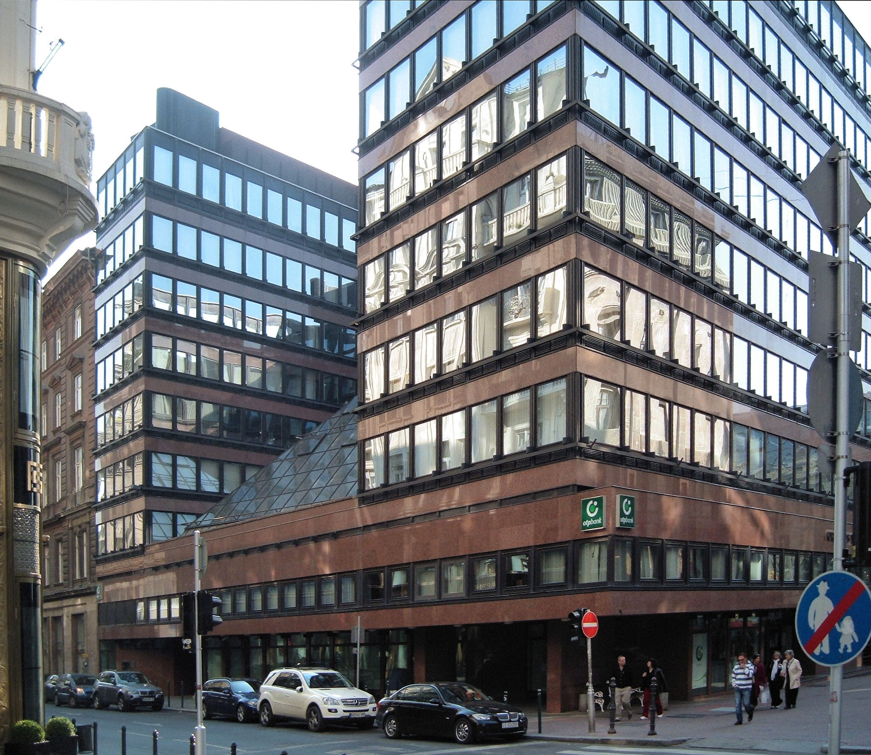 Chemolimpex (later OTP) office building, Budapest. Architect: Zoltán Gulyás (IPARTERV), 1960ies